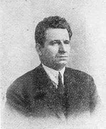 portrait of Todor Panica